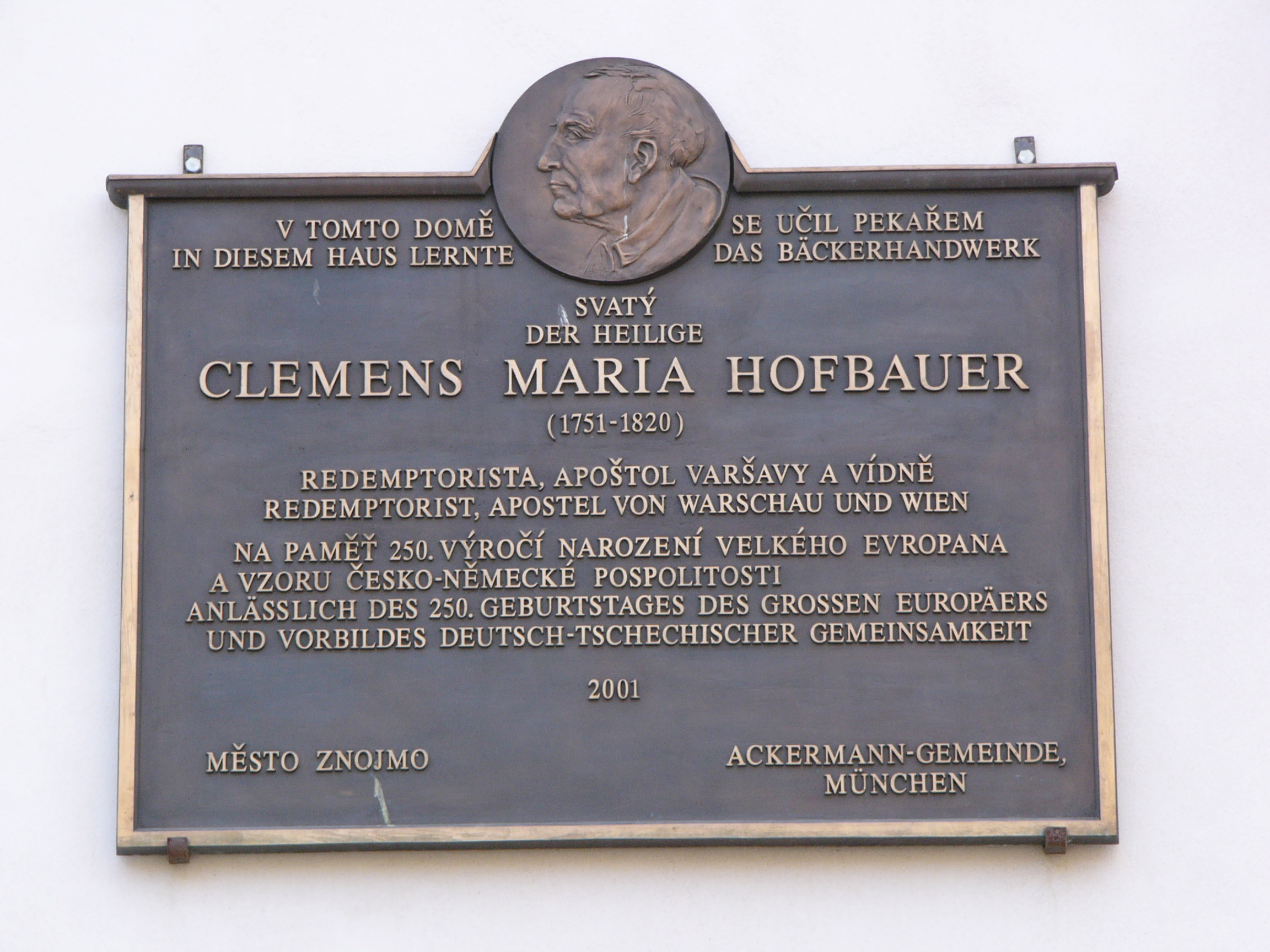 2001 bronze plaque of saint Klemens Maria Hofbauer by Zdeněk Maixner on the house in Znojmo where he was an apprentice in a bakery. The plaque is in both in Czech and in German language.